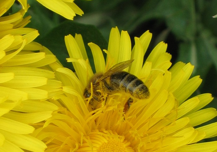 Apis mellifera an Taraxacum officinale